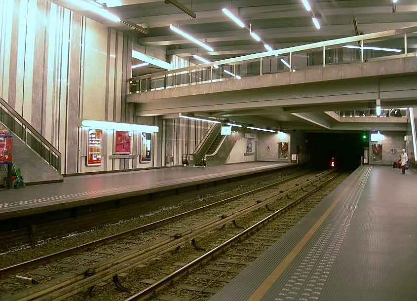 Platforms of Roodebeek station, Brussels metro